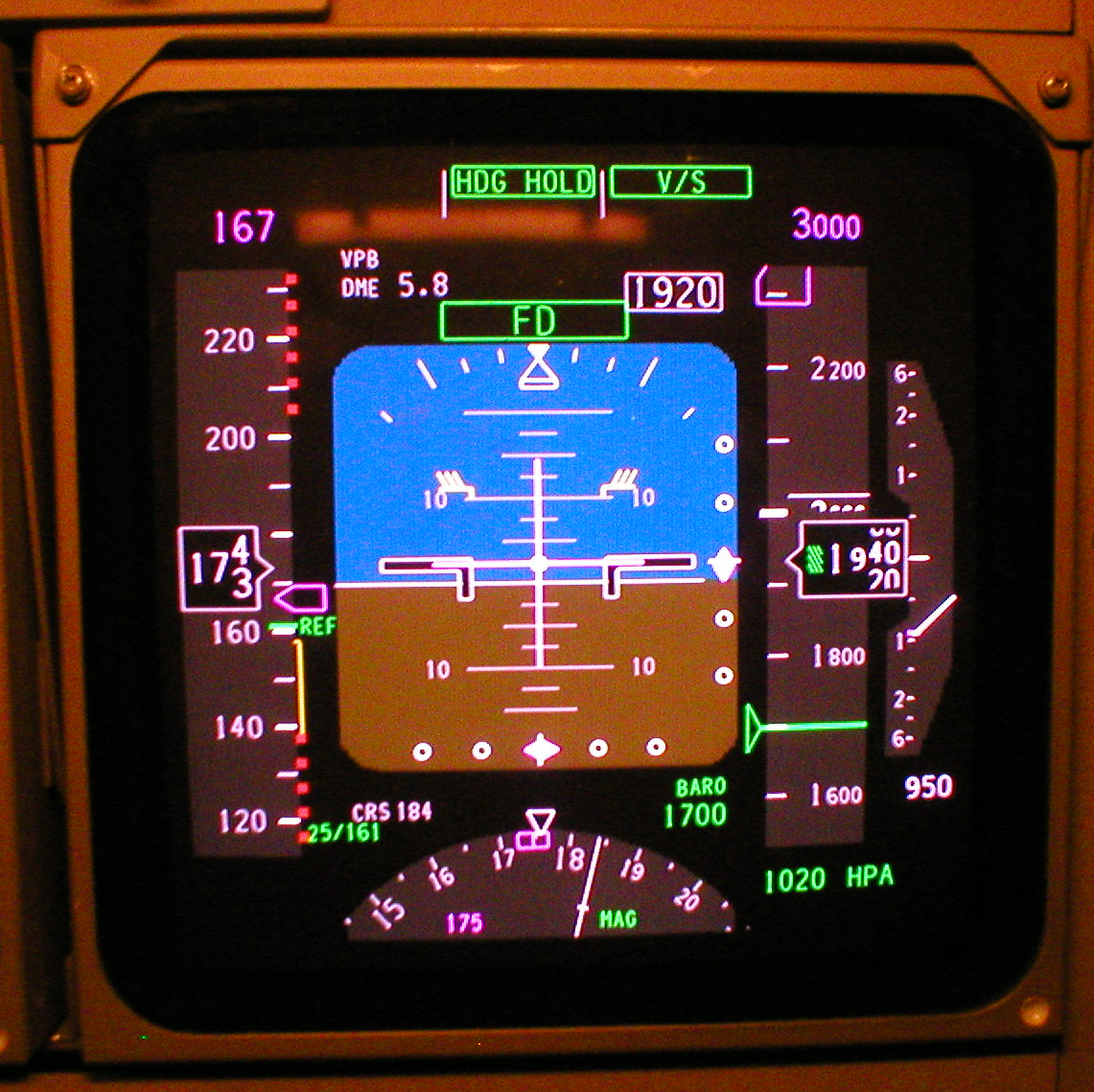 Primary Flight Display of a Boeing 747-400 aircraft. The electronic instrument shows airspeed, altitude, heading and additional data one a single display.